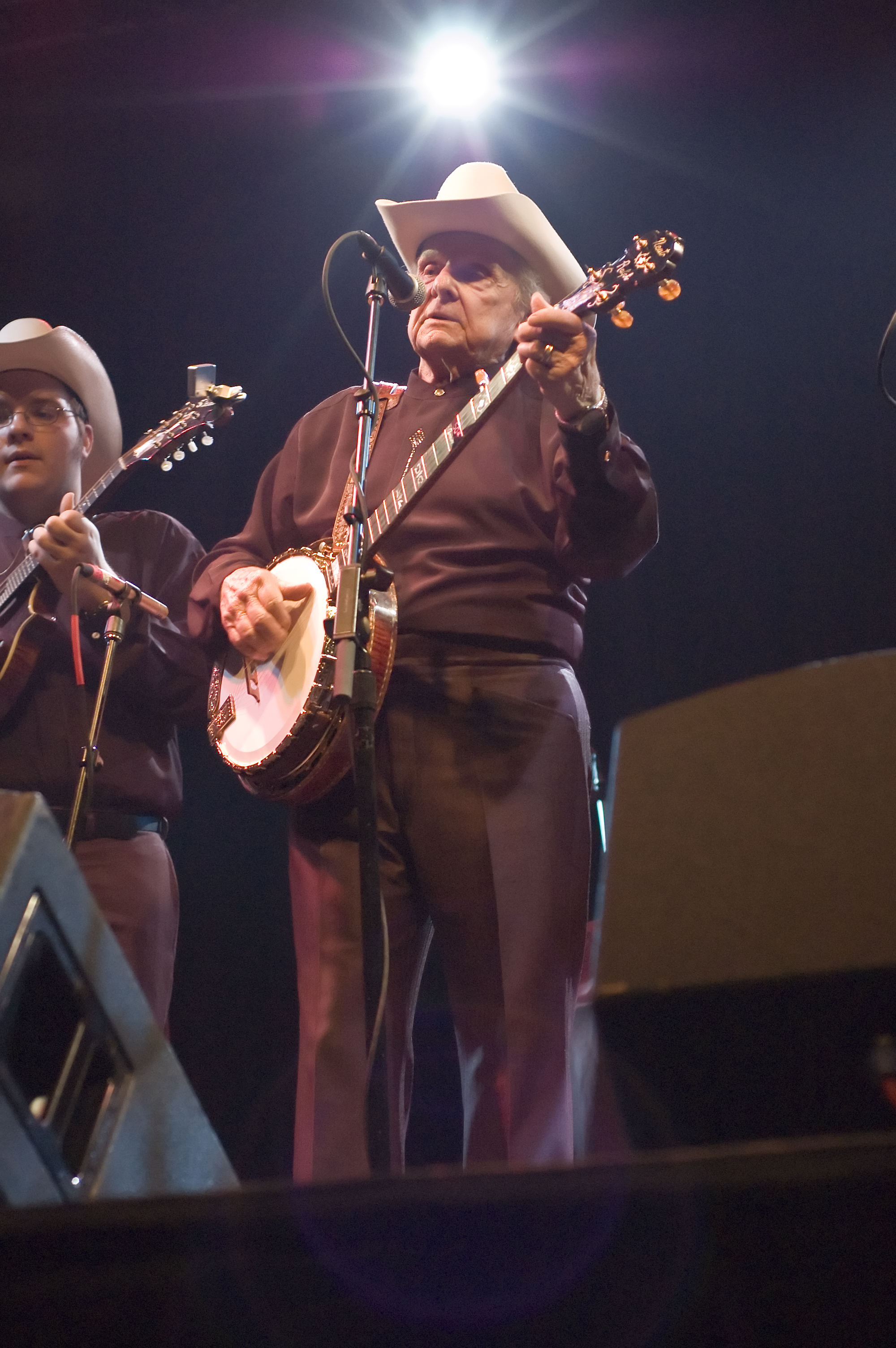 Ralph Stanley performs April 20, 2008.